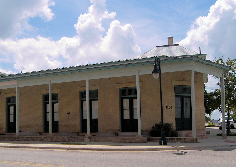 The Haehnel Building located at 1101 E. 11th S Austin, Texas, United States. The building was added to The National Register of Historic Places on September 17, 1985.